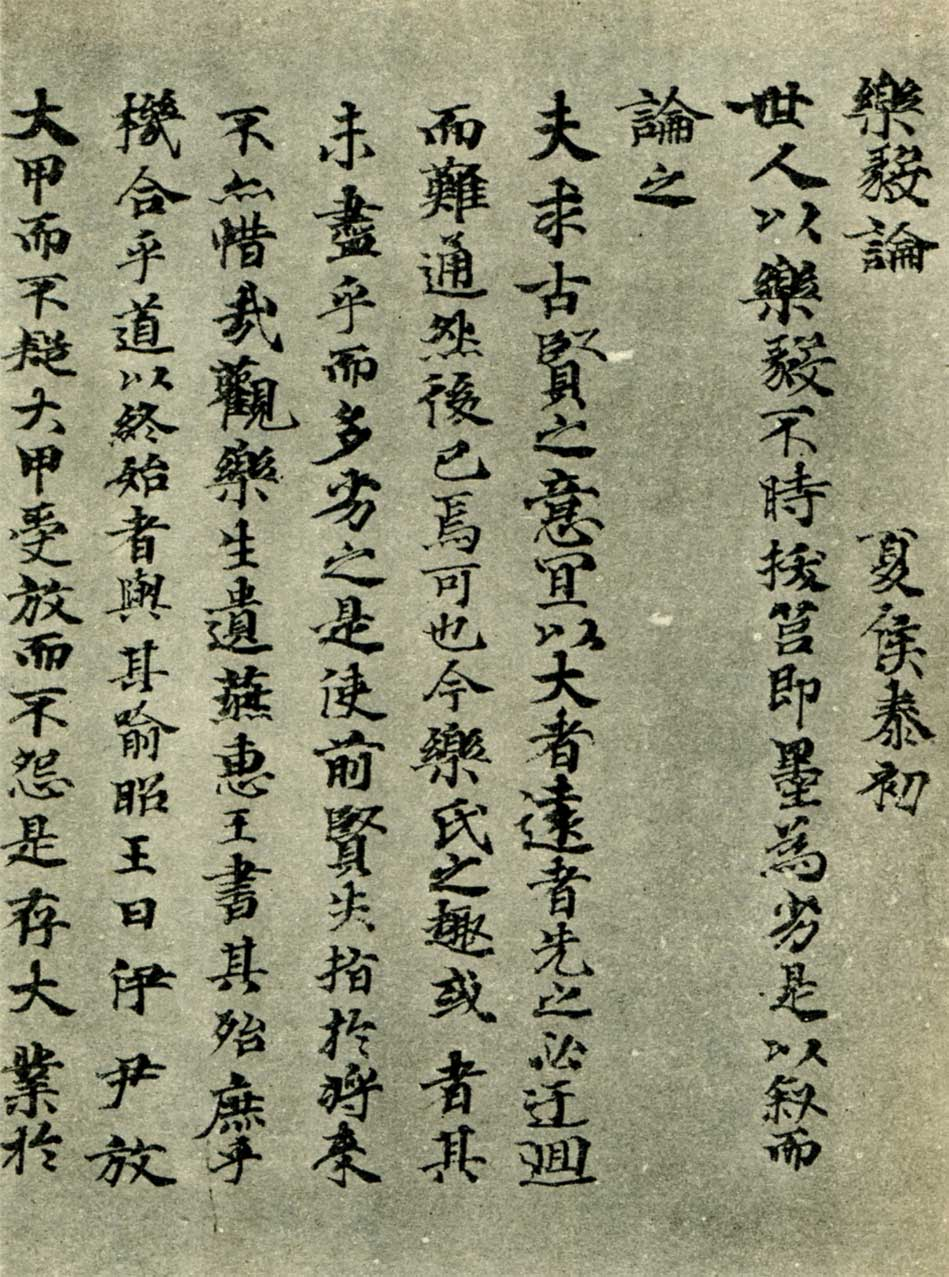 Gakkiron, written by the Empress Komyo stored in Shōsōin